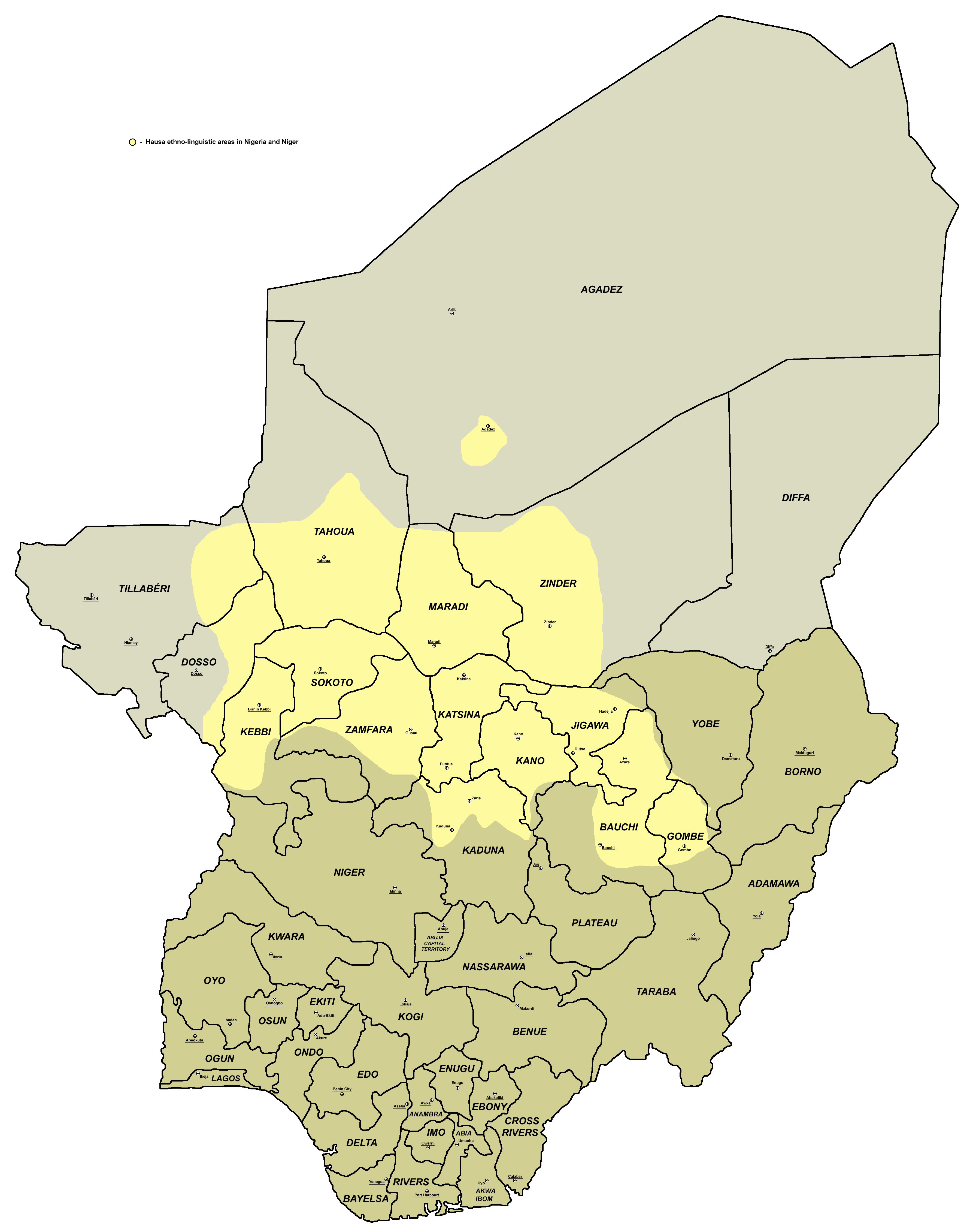 Map of Hausa language and people distribution in Nigeria and Niger.